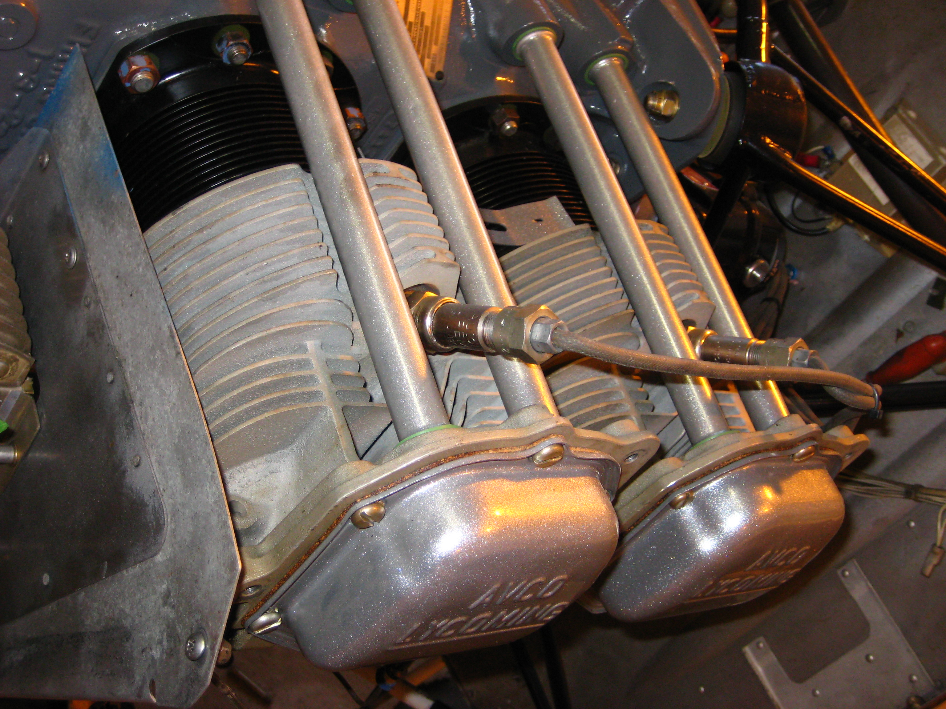 Left-hand cylinders of a Cessna 152's O-235 engine.